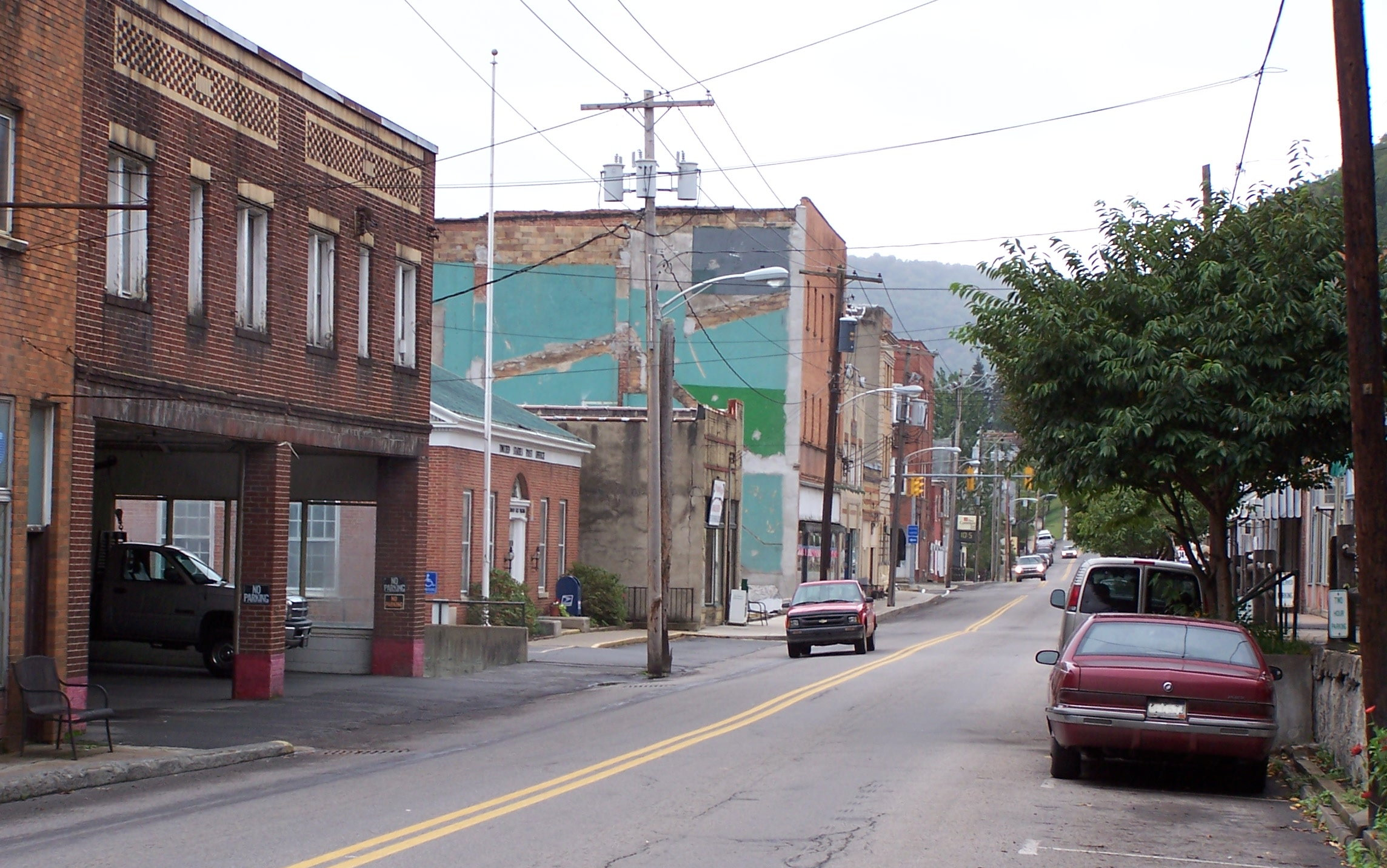 Self-made photo of Main Street (WV55 & WV39) in Richwood, West Virginia taken on Septembet 24, 2006. The photo was taken at street level across the street from the former Vitello's Furniture building looking westbound towards the stoplight.